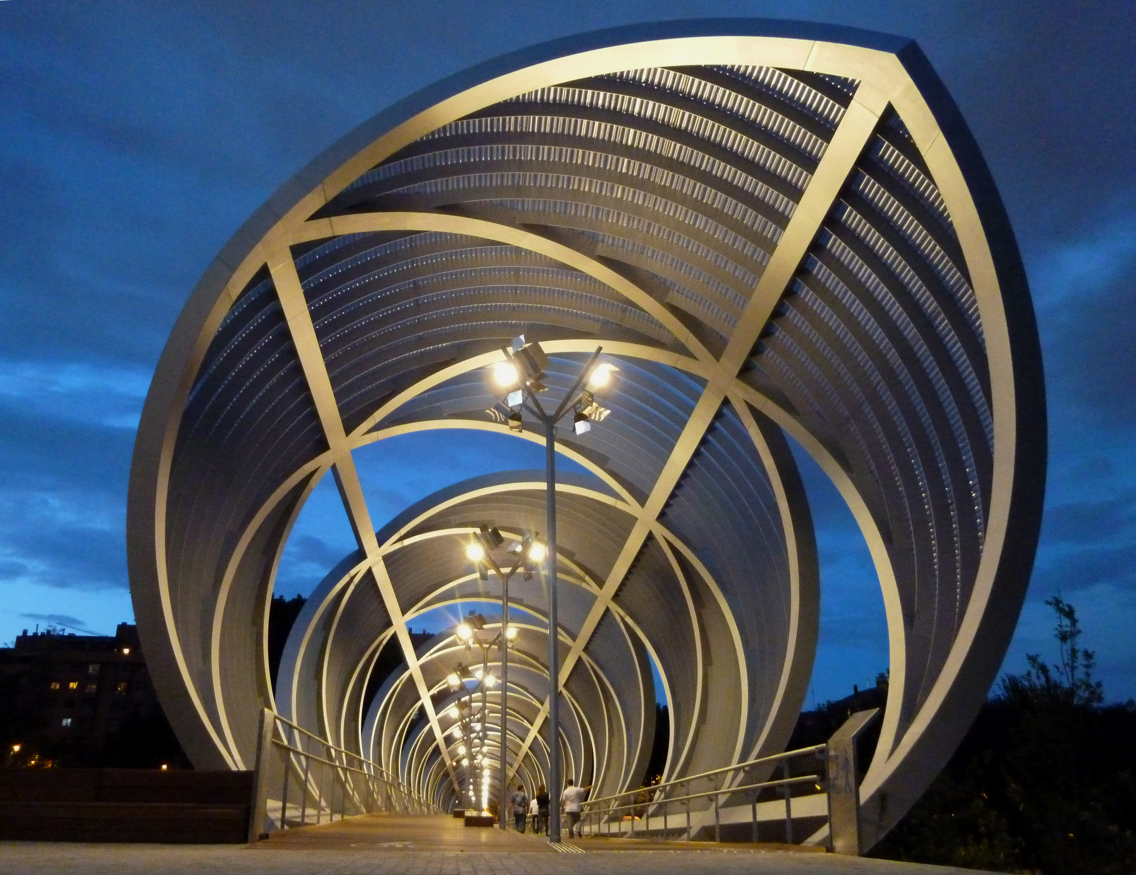 Night view of Arganzuela Bridge in Madrid (Spain).